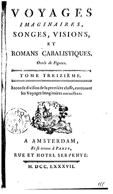 Cover of a 1787 book published in Amsterdam, regrouping tales of imaginary travels by Lucian of Samosata ("A True Story", French translation by Perrot d'Ablancourt), Perrot d'Ablancourt (a sequel to "A True Story"), and Cyrano de Bergerac ("Histoire comique des états et empires de la Lune"). This is the cover of the 13th volume of the series.